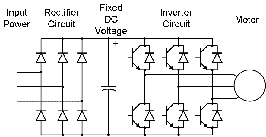 A circuit diagram of a three-phase variable frequency drive (VFD).